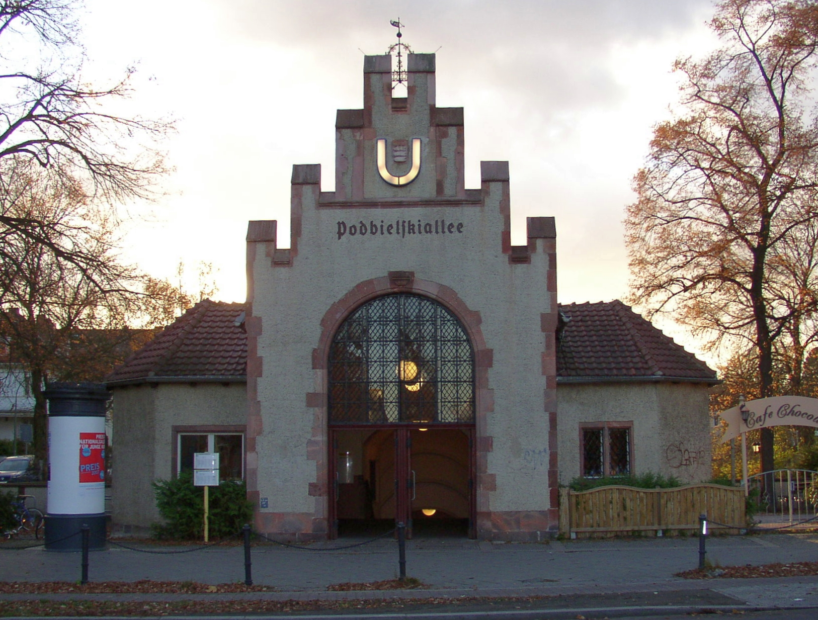 Subway-station Podbielskiallee: Entrance building